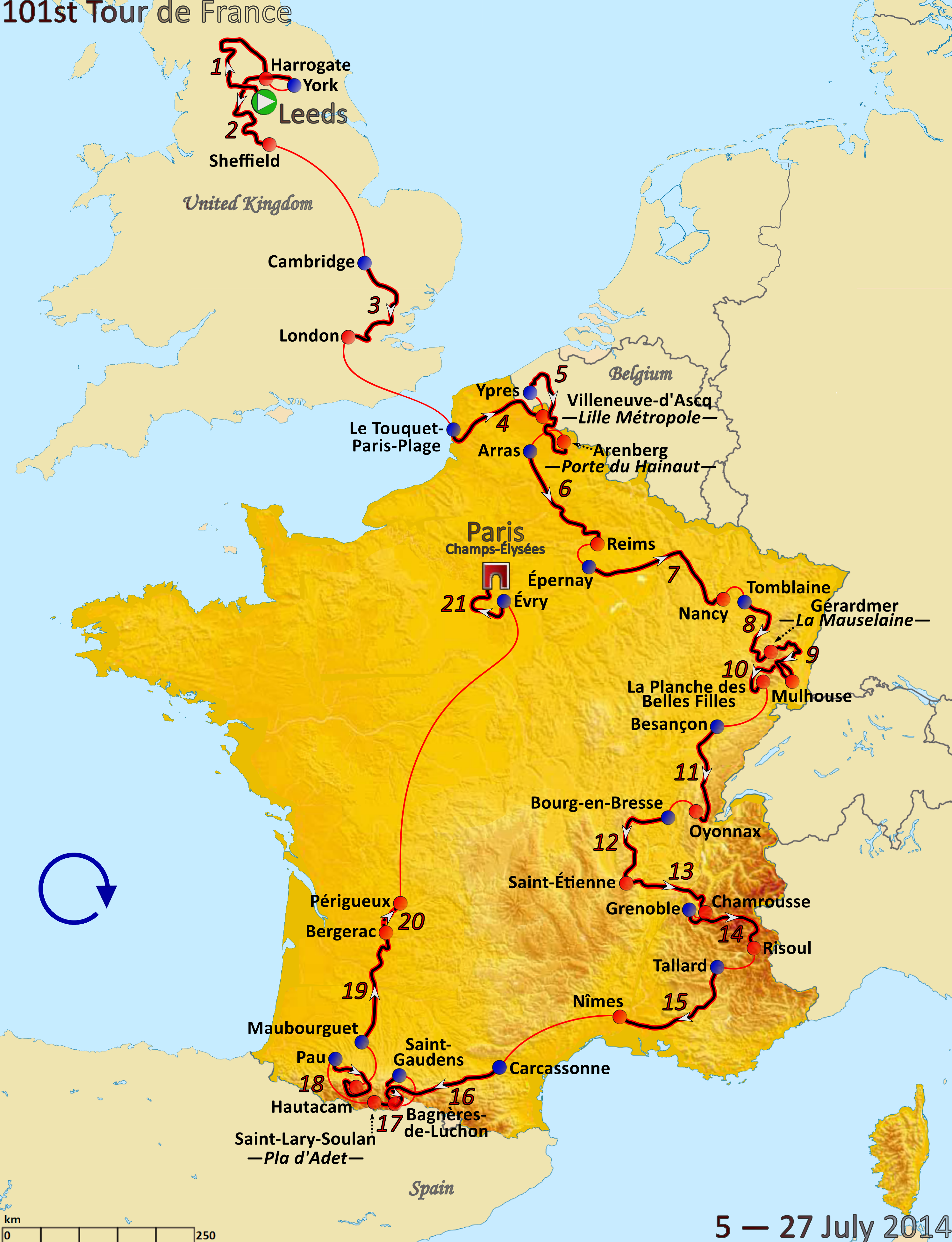 Map of the 2014 Tour de France created in Inkscape